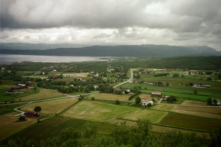 Foto: Arne Engmo